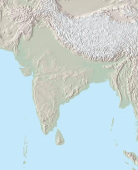 Geographical map of the Indian subcontinent. Licensing This image is in the public domain because it contains materials that originally came from the United States Central Intelligence Agency's World Factbook. This is a retouched picture, which means that it has been digitally altered from its original version. Modifications: Edited out boundaries and other markings. The original can be viewed here: Indian subcontinent CIA.png: . Modifications made by Deepak. This map image could be re-created using vector graphics as an SVG file. This has several advantages; see Commons:Media for cleanup for more information. If an SVG form of this image is available, please upload it and afterwards replace this template with vector version available|new image name . It is recommended to name the SVG file "Indian subcontinent.svg" - then the template Vector version available (or Vva) does not need the new image name parameter. This map image was uploaded in the JPEG format even though it consists of non-photographic data. This information could be stored more efficiently or accurately in the PNG or SVG format. If possible, please upload a PNG or SVG version of this image without compression artifacts, derived from a non-JPEG source (or with existing artifacts removed). After doing so, please tag the JPEG version with Superseded|NewImage.ext and remove this tag. This tag should not be applied to photographs or scans. For more information, see BadJPEG .